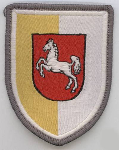 1st Armored Grenadiers Brigade